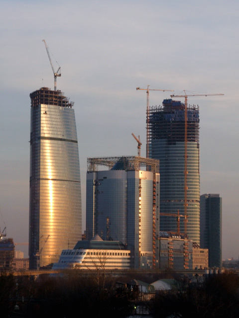 Moscow-City